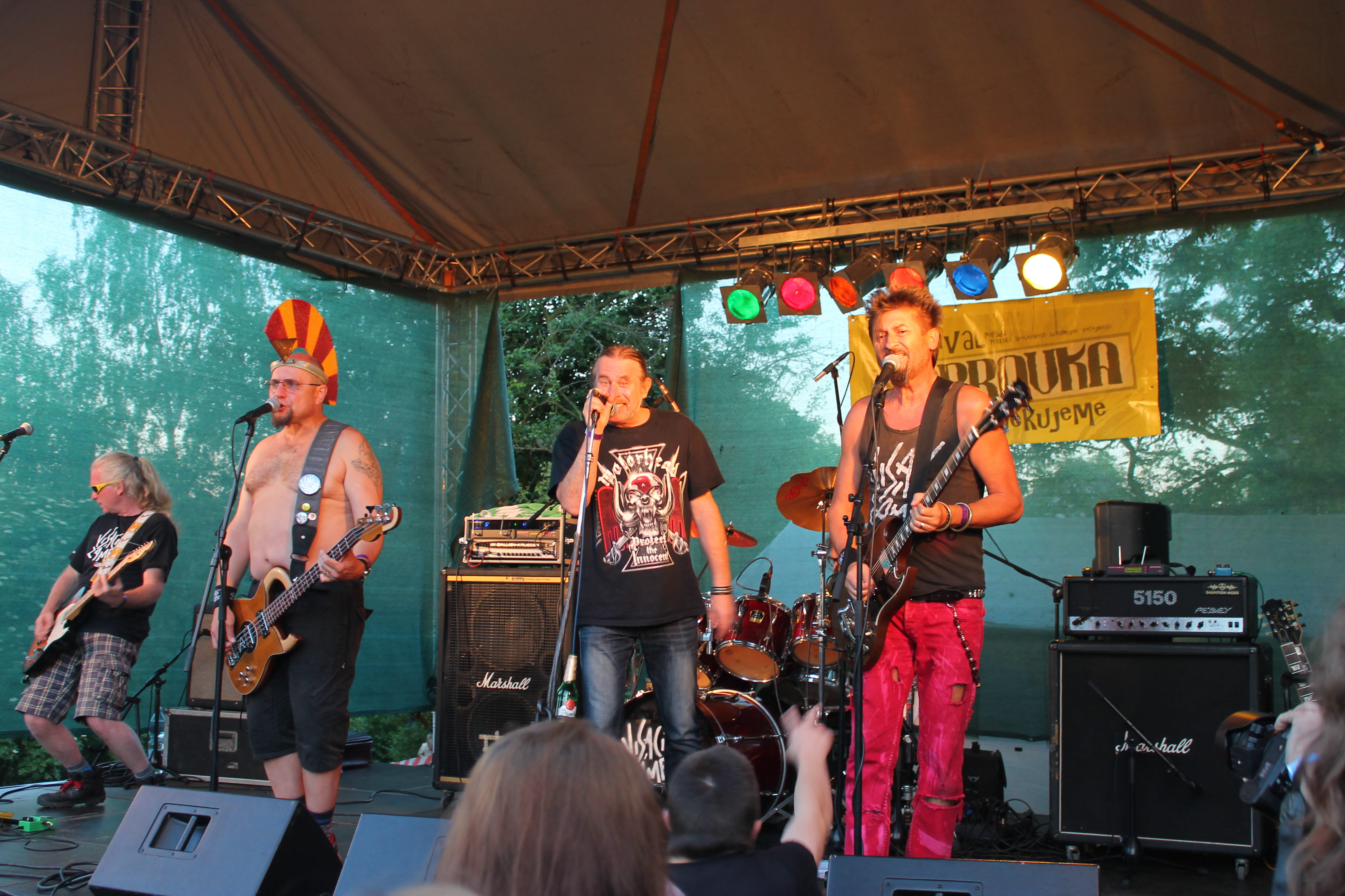 Concert of the band Visací zámek at Habrovka festival, Prague 6. 6. 2014